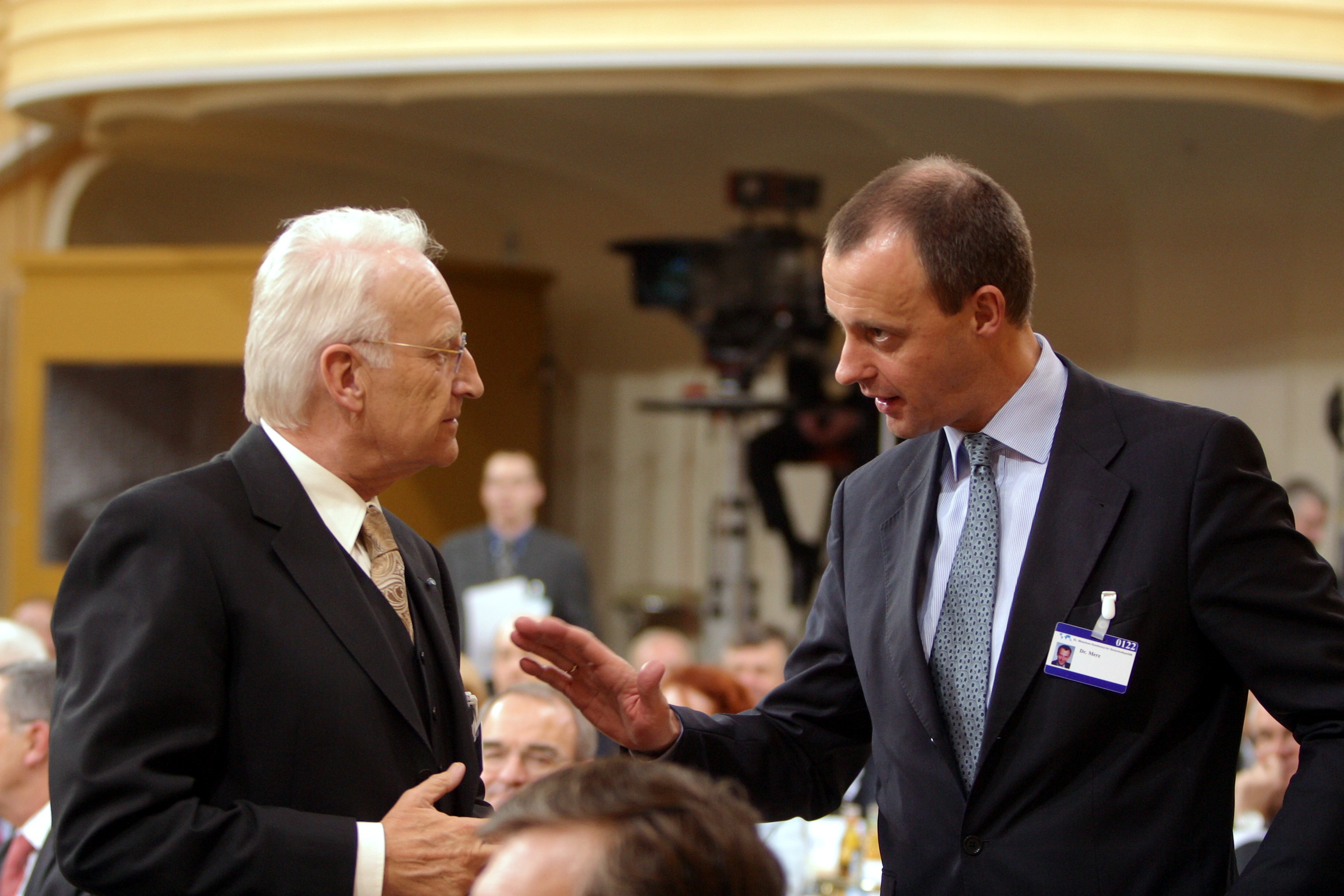 40th Munich Security Conference 2004: In Conversation: Dr. Edmund Stoiber, Minister President of Bavaria (le.) and Dr. Friedrich Merz, Deputy Chairman of the CDU/CSU Parliamentary Group, Germany.